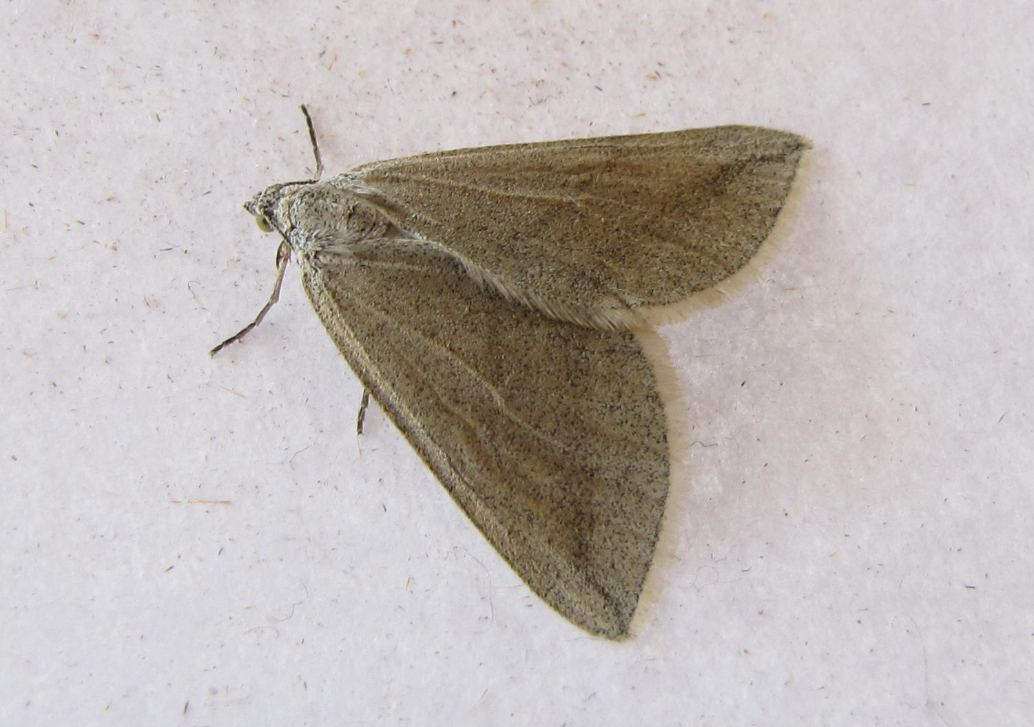 Lithostege griseata, Lepidoptera, Geometridae, Rangsdorf, Brandenburg, Germany